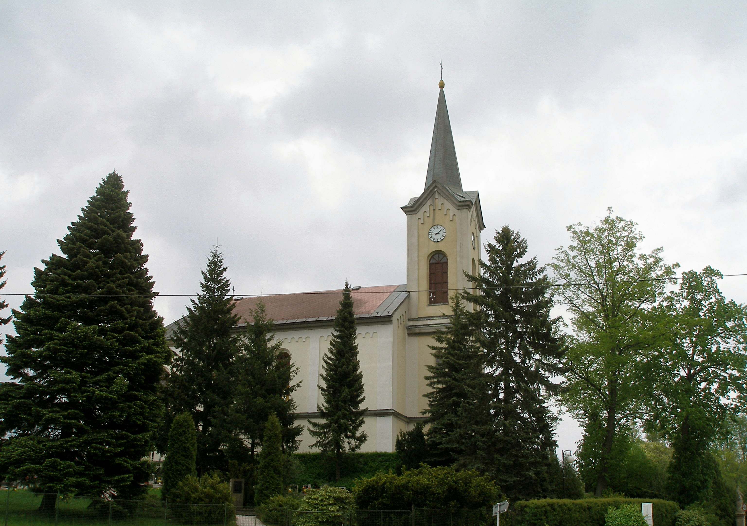 Church of holy John the Baptist in Studenec (Semily District)